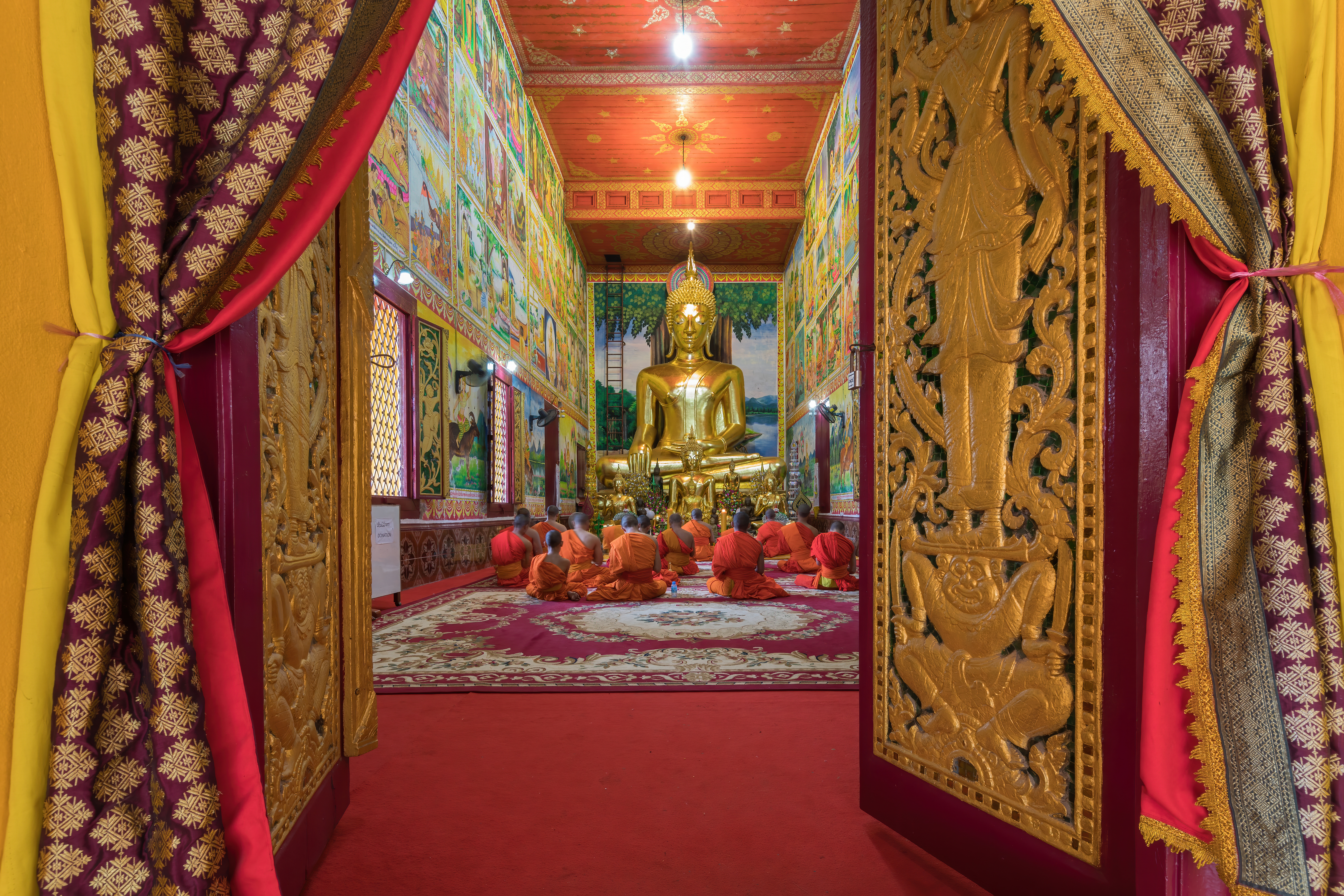 Open front door over Wat Mixay, during evening prayer, and bhikkhus sitting in front of a golden Buddha statue, Vientiane, Laos